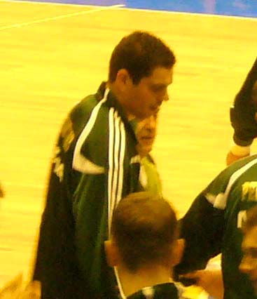 Image of Kostas Tsartsaris cropped from a Public Domain image